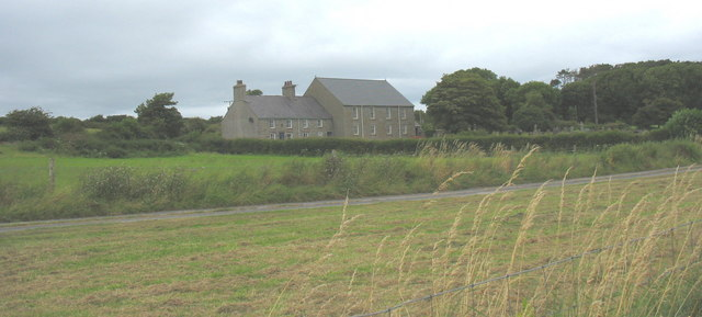 Capel Tabernacl Chapel, Llanfair M.E. This is a Calvinistic Methodist chapel. Llanfair M.E. is not a medical condition. It is short for Llanfair-Mathafarn-Eithaf (meaning "St Mary's church in the furthest field of the tavern"). which is the name of the parish in which Benllech is situated. The most famous son of the parish was the 18th century poet and beer-swilling cleric Goronwy Owen who was forced into exile in America by the English Bishop of Bangor